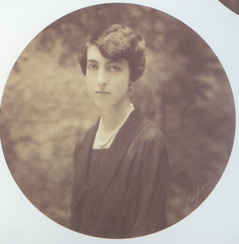 Princess Isabelle of Orléans, Countess of Harcourt and then Princess Murat